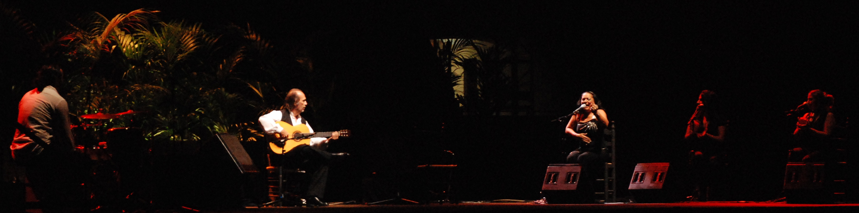 Paco de Lucía at Gibralfaro in Málaga, Spain, on 22 September 2007.